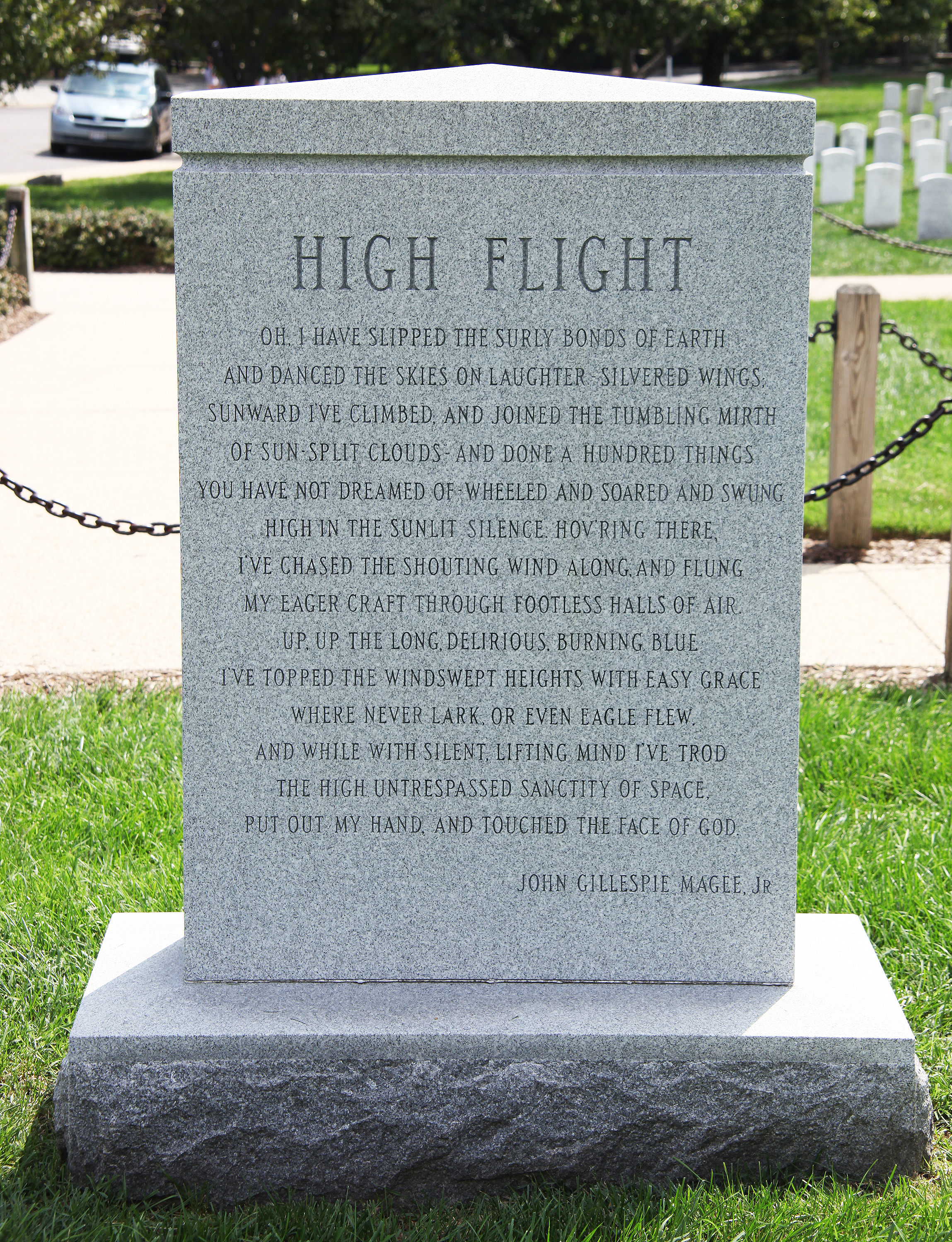 Rear face of the Space Shuttle Challenger Memorial in Section 46 of Arlington National Cemetery in Arlington, Virginia, in the United States. The Space Shuttle Challenger exploded shortly after liftoff on January 28, 1986. The remains of Captain Michael Smith and Commander Francis "Dick" Scobee were identified and interred at Arlington. The remains of the five other individuals aboard the shuttle could not (at that time) be identified, and were cremated. A group burial occurred near Scobee's grave in Section 46. On June 12, 1986, Congress passed legislation establishing a Space Shuttle Challenger memorial. The families agreed to erect the memorial on top of the grave holding the cremated remains. Artist Robert Harding designed the bronze plaque which is affixed to the front of the monument. The poem "High Flight" by John Gillespie Magee, Jr., is inscribed on the memorial's rear. The memorial was dedicated on March 21, 1987, by Vice President George H.W. Bush.